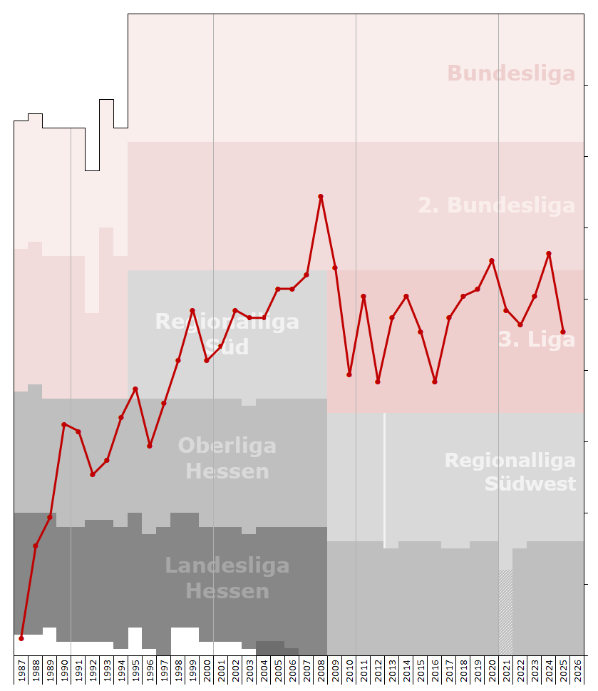 Chart of end-season table positions of Wehen Wiesbaden in the football league system of Germany. Data source: RSSSF, wikipedia, f-archiv.de, fussball.de